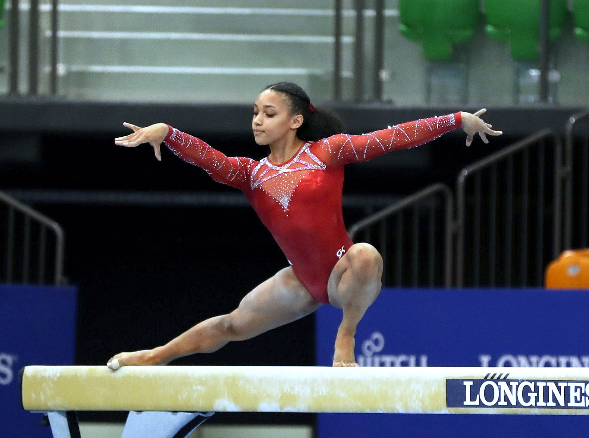 Balance beam exercise of subdivision 1 during the girls' all-around competition at the 1st FIG Artistic Gymnastics Junior World Championships on 28 June 2019 in Győr, Hungary. Depicted: Sydney Barros.